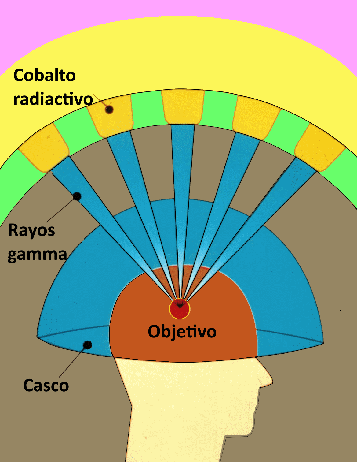 NRC Graphic of the Leksell Gamma Knife.